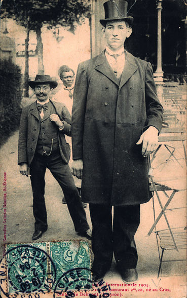 Joseph Dusorc / Henry Joseph Cot